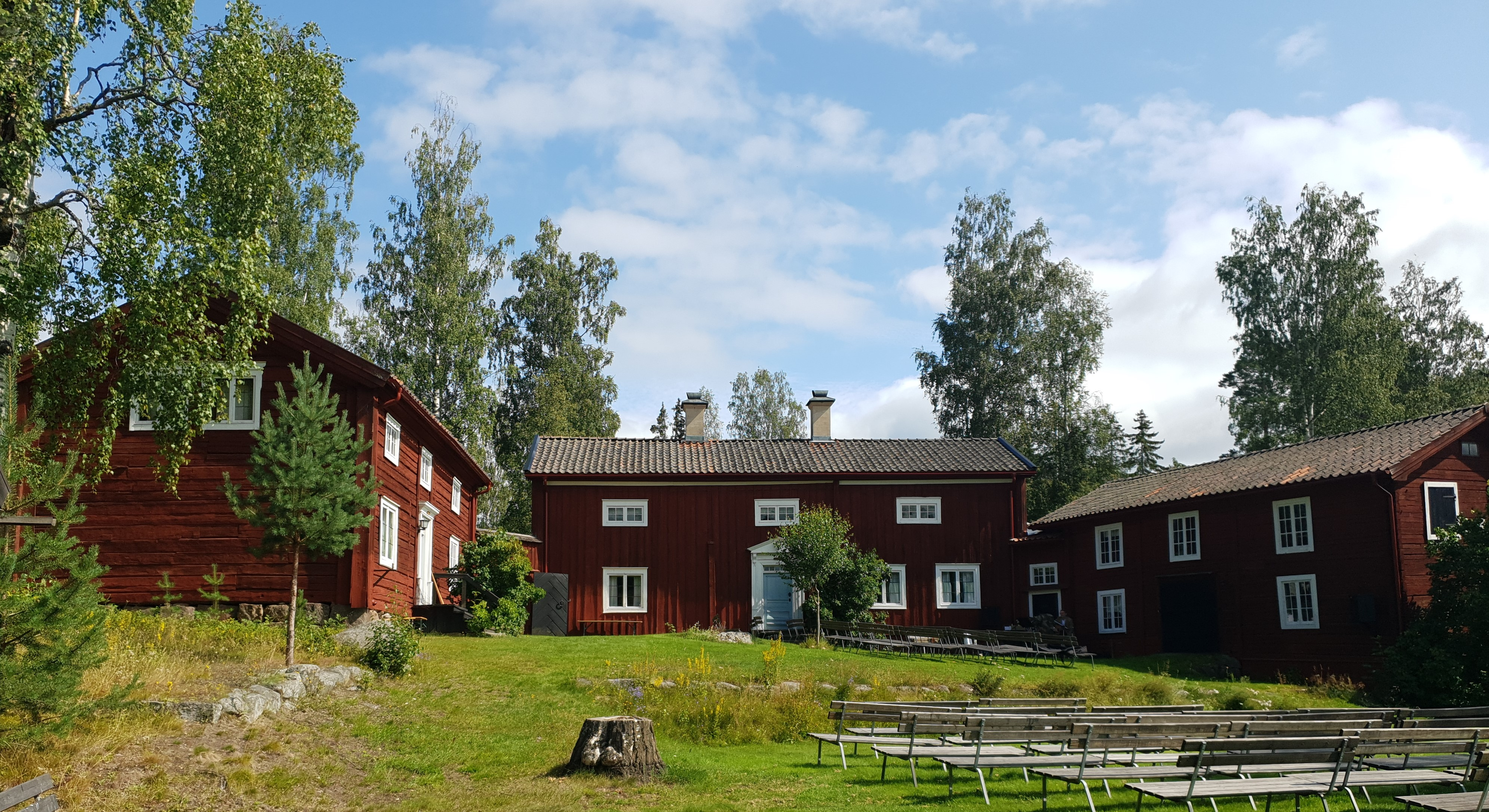 Local heritage centre "Fornhemmet" in Arbrå